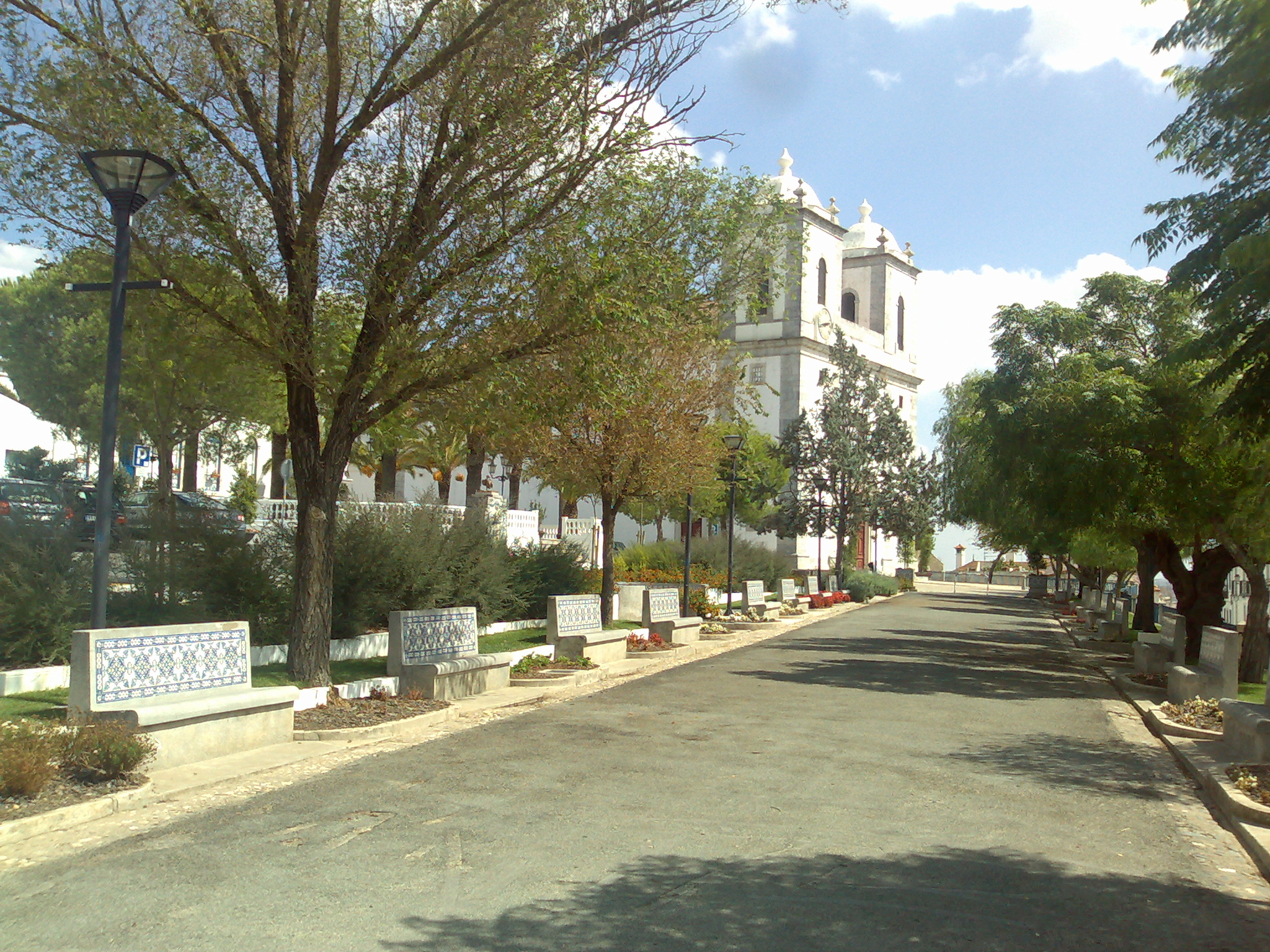 Basilica and garden at Castro Verde, Portugal